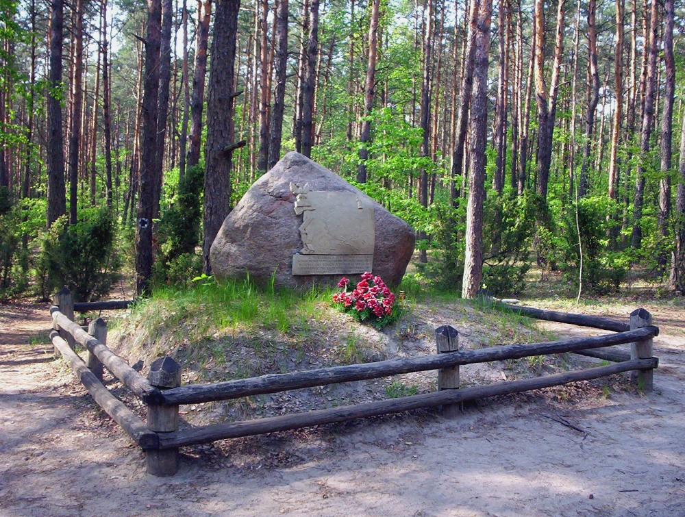 Stone-monument to 14th Regiment of Jazłowiec Uhlans in Kampinos National Park, Poland.